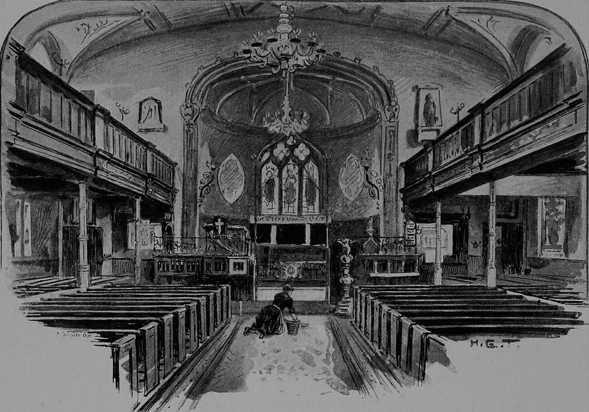 Inside St John's parish church, Manchester, England, looking east to the chancel.Illustration by Henry Edward Tidmarsh, circa 1894.